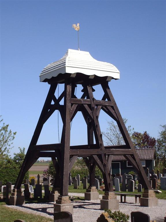 wooden bell tower in Ypecolsga, Friesland, Netherlands